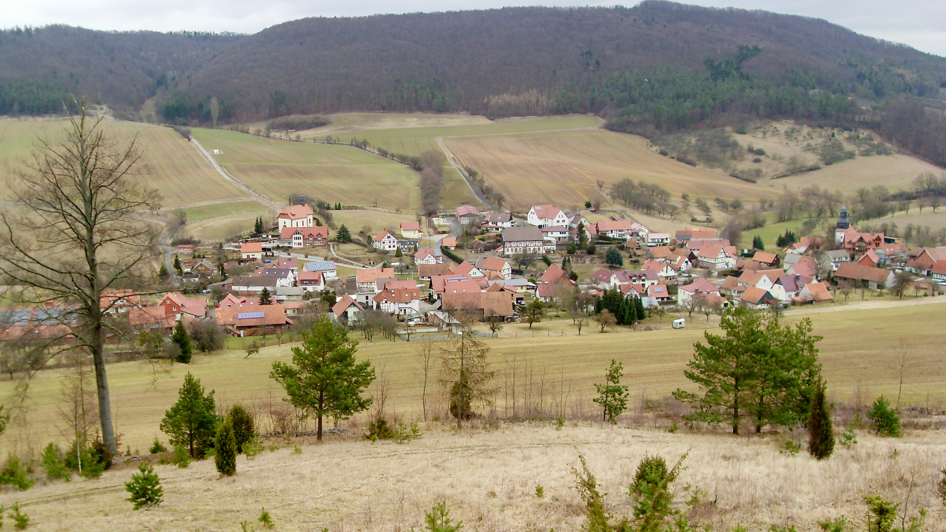 The village of Fretterode in Thuringia, Germany